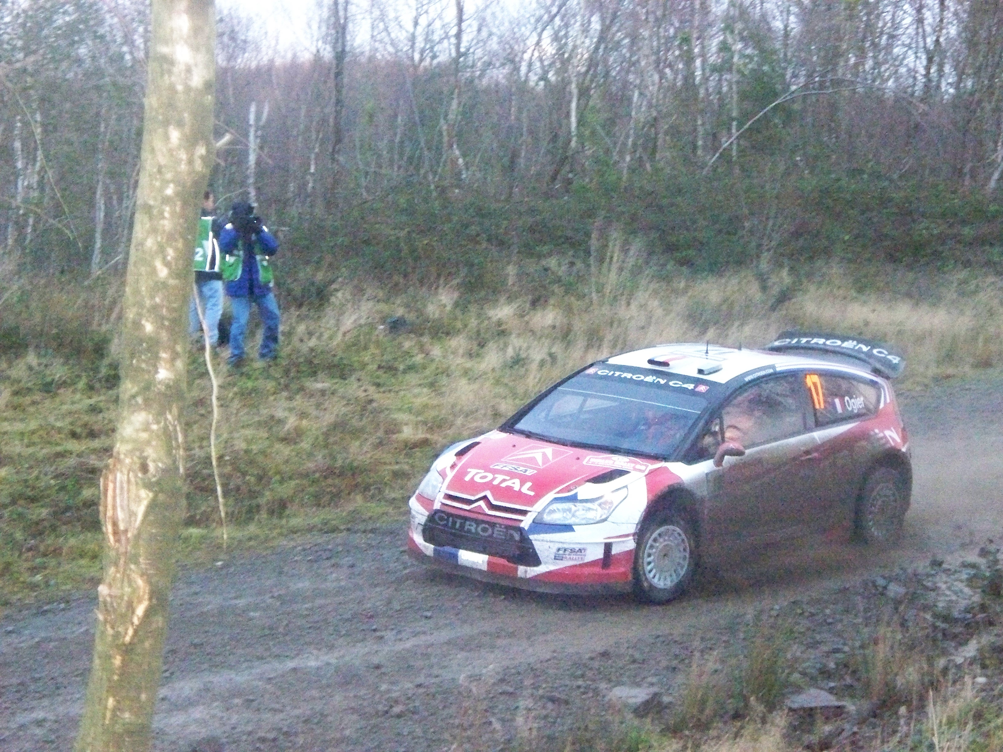 Sébastien Ogier at the Shakedown stage of Wales Rally GB 2008